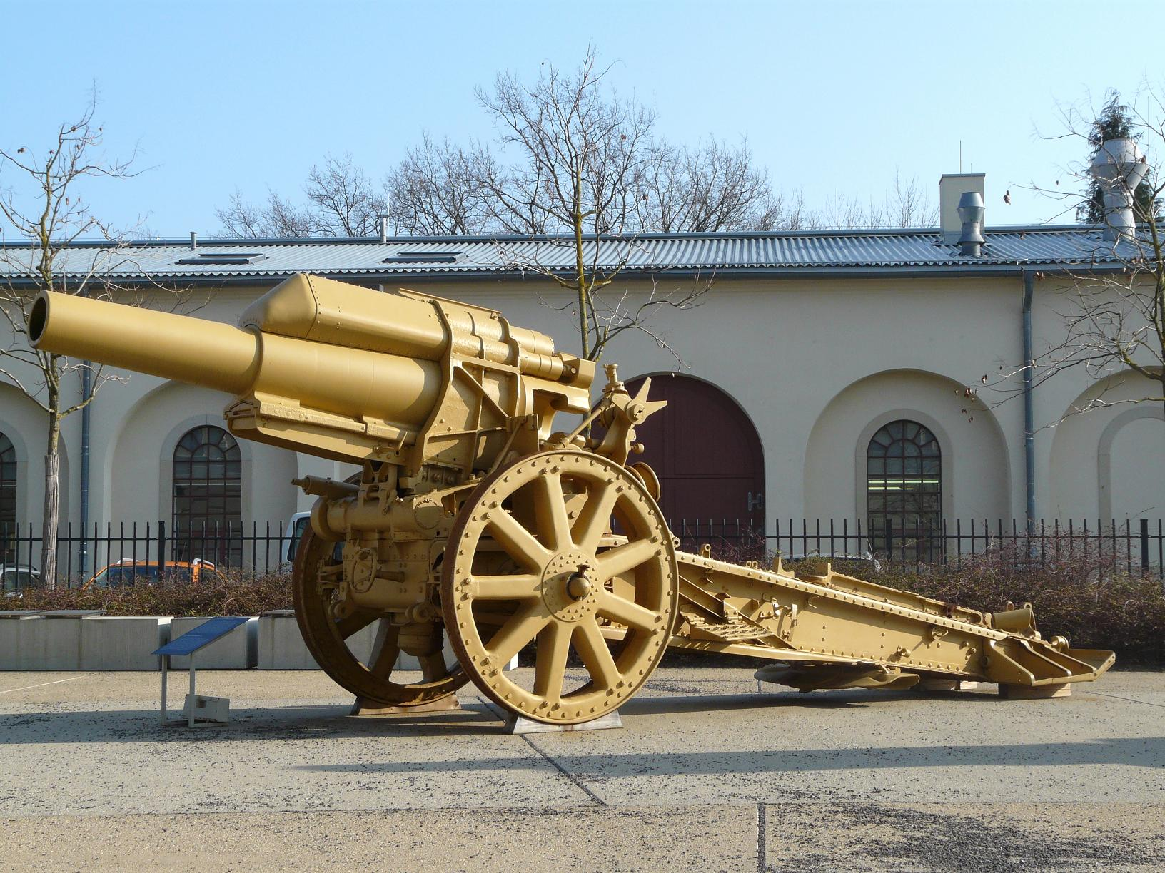 21 cm Mörser 16 from World War I (1918, Manufacturer: Krupp A.G. Essen) in the Bundeswehr Military History Museum Dresden